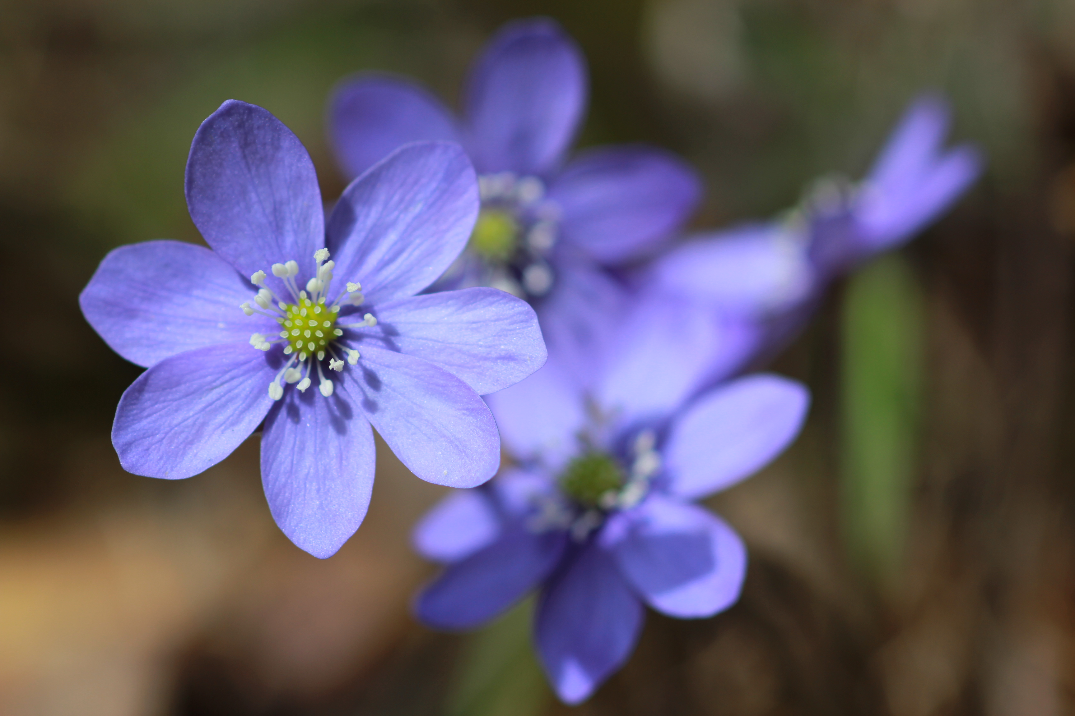 Black Eye.